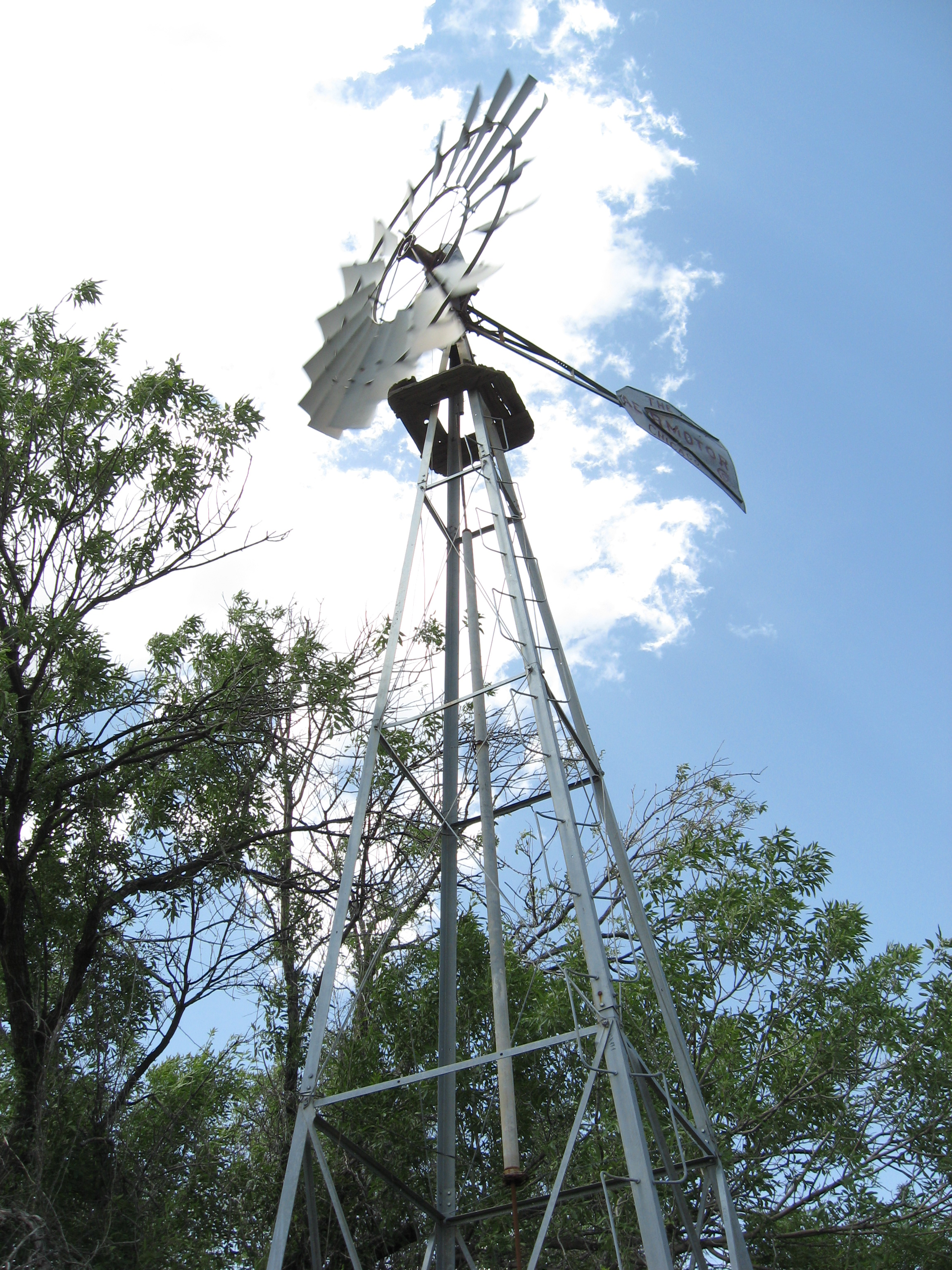 Copper Creek ranger station wind pump